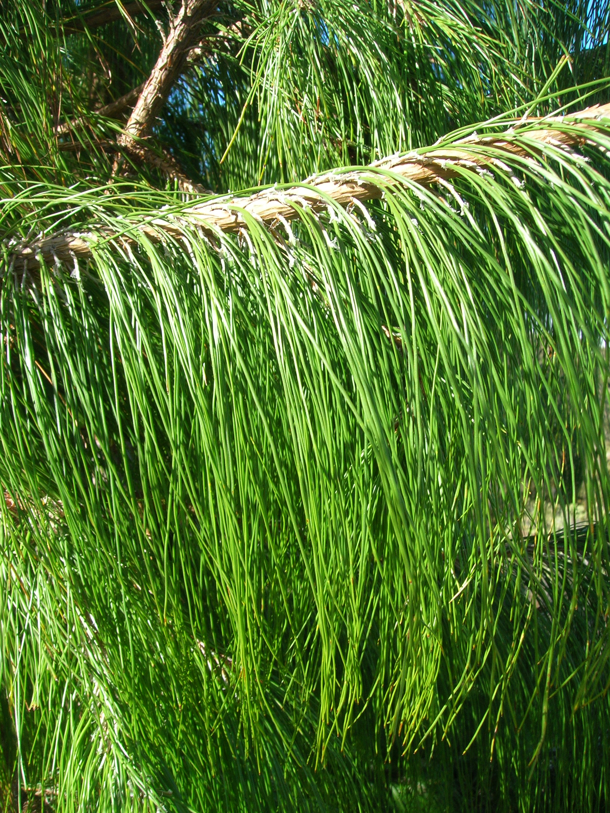 Pinus patula (needles). Location: Maui, Haleakala Ranch